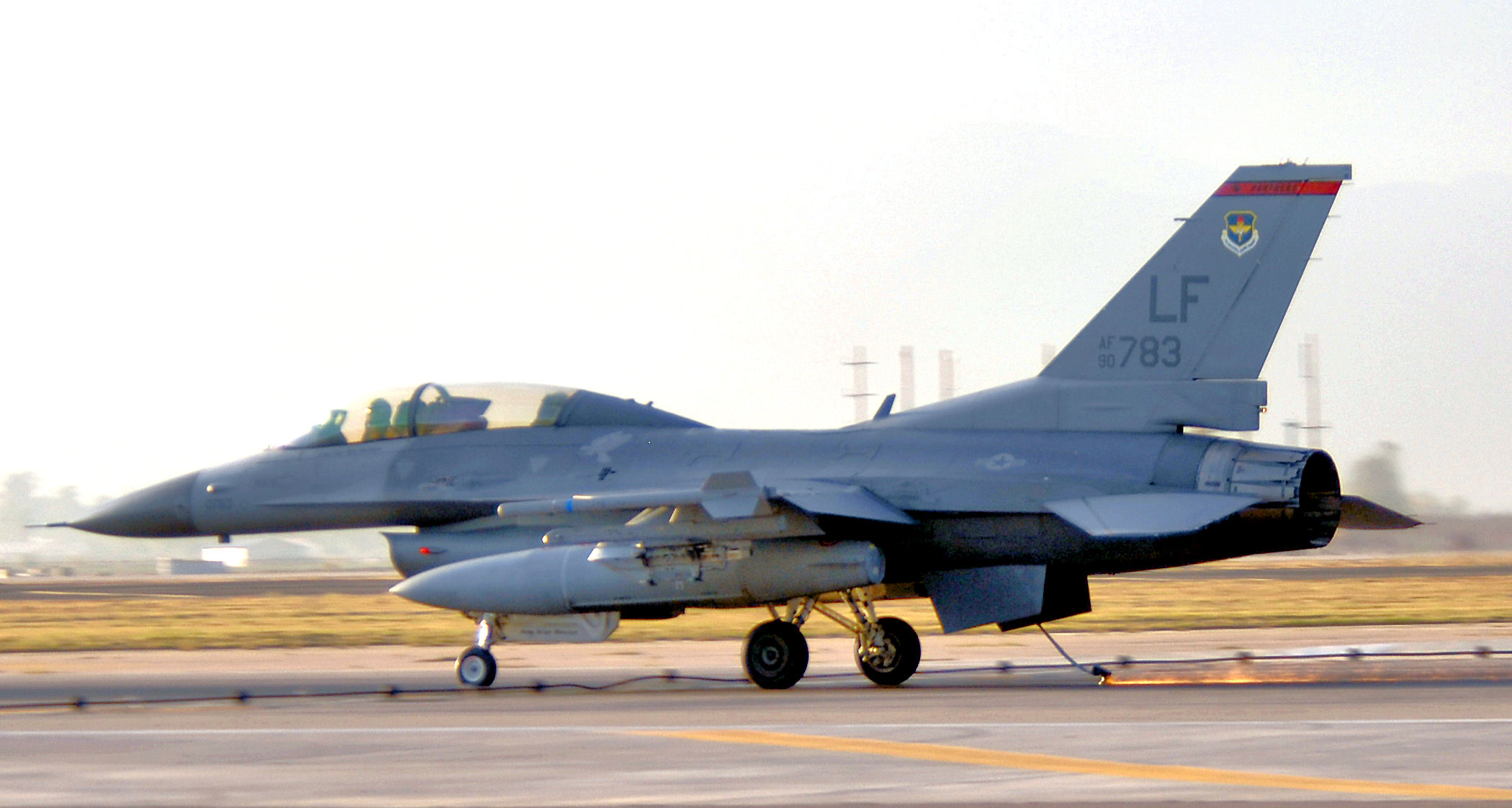 The tailhook of a 63rd Fighter Squadron F-16 scrapes along the runway before grabbing hold of the arresting barrier Dec 20. The barrier engagement is an annual requirement airfield managers must arrange and perform to ensure the systems are operational. (U.S. Air Force photo/Tech. Sgt. Raheem Moore)